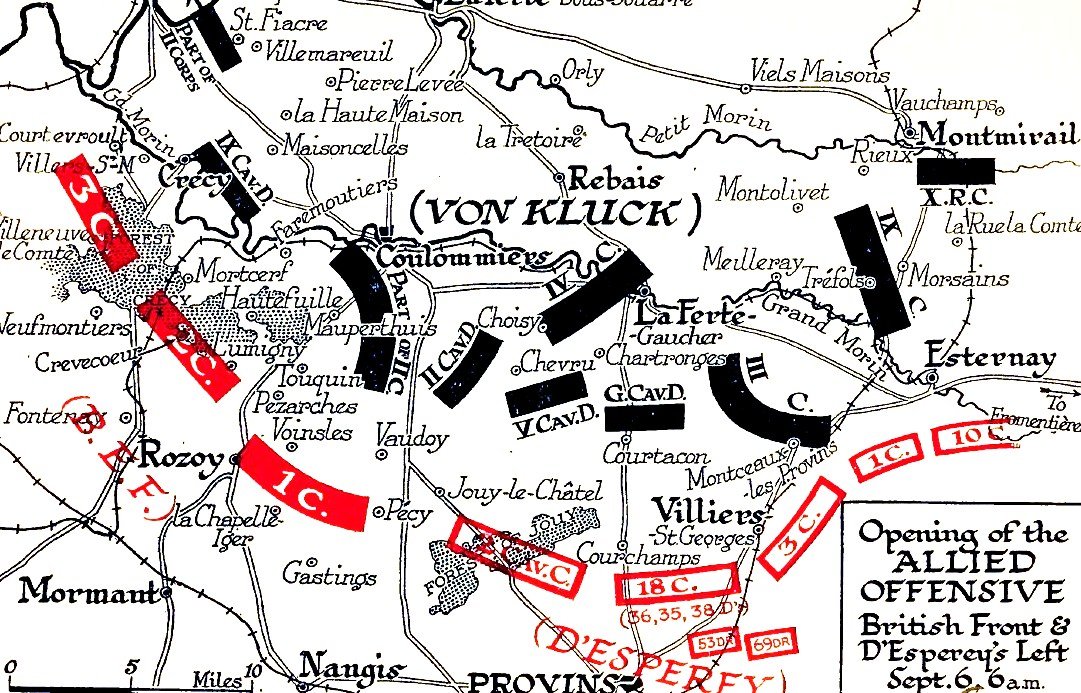 Map, Marne BEF and Fifth Army, 6 September 1914